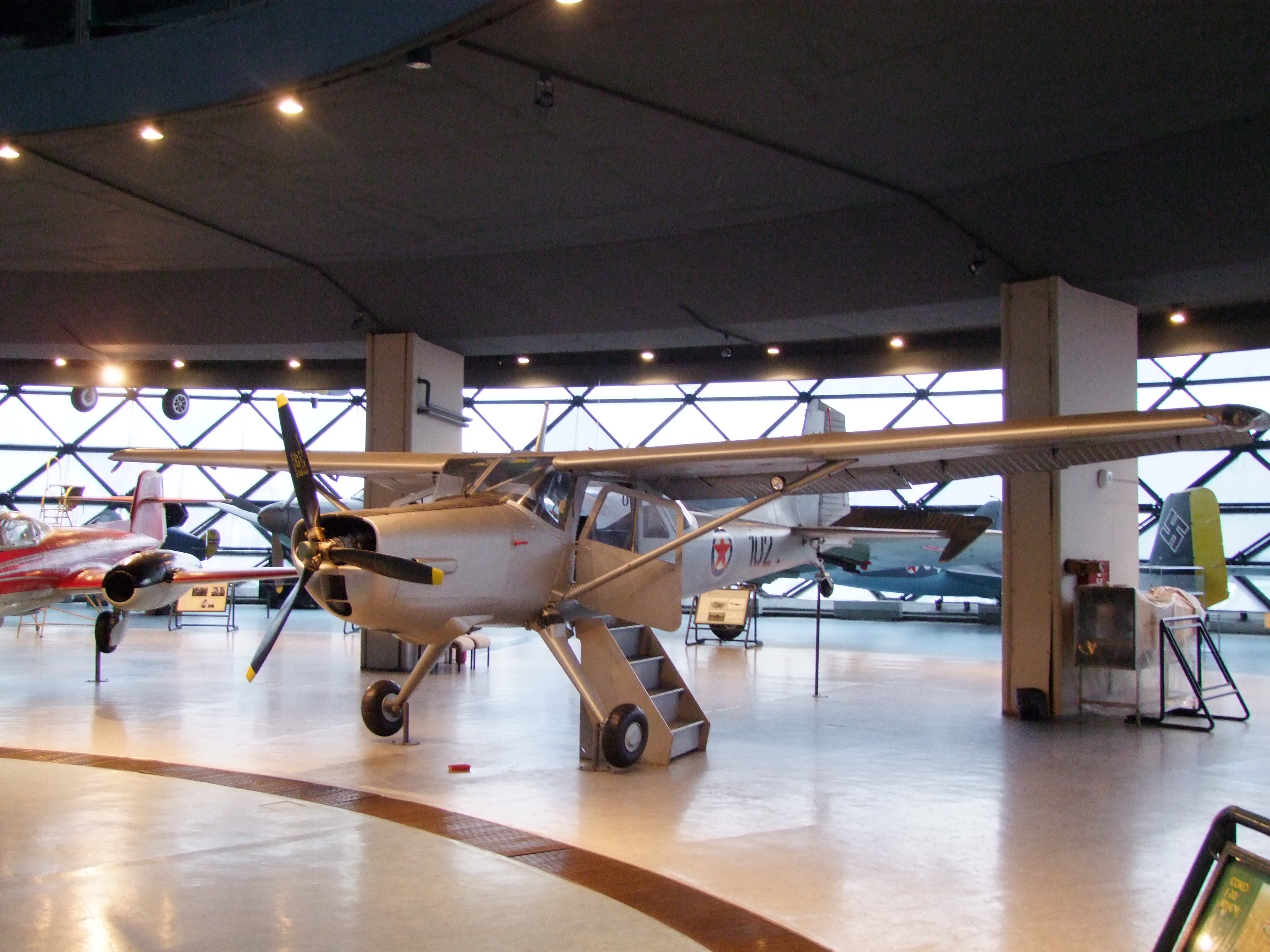 Utva 66H V-52